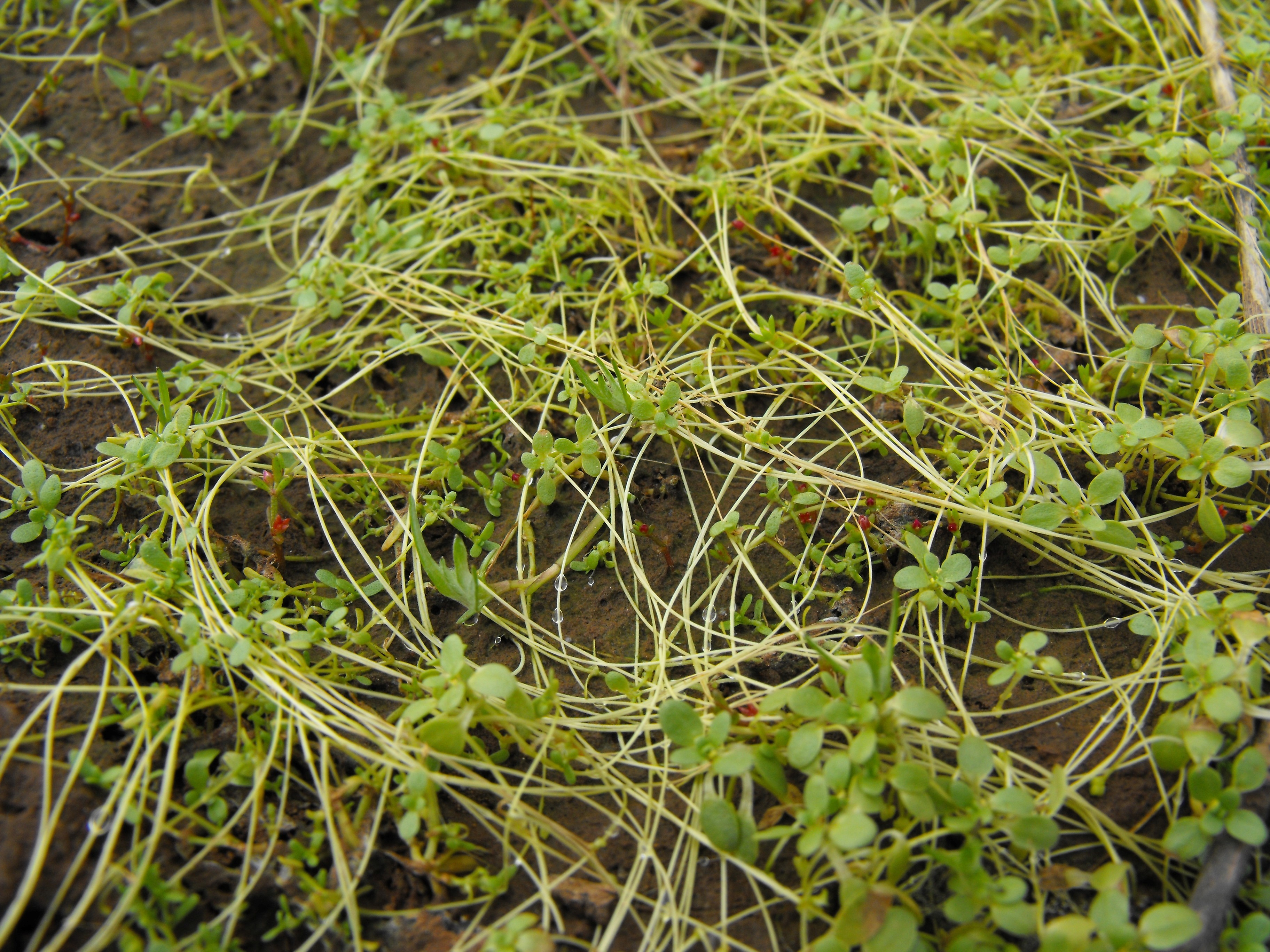 Callitriche marginata — winged water starwort. At a drying vernal pool in Carmel Mountain Preserve, in northern San Diego (city), California, U.S. The only Callitriche that occurs at this location.